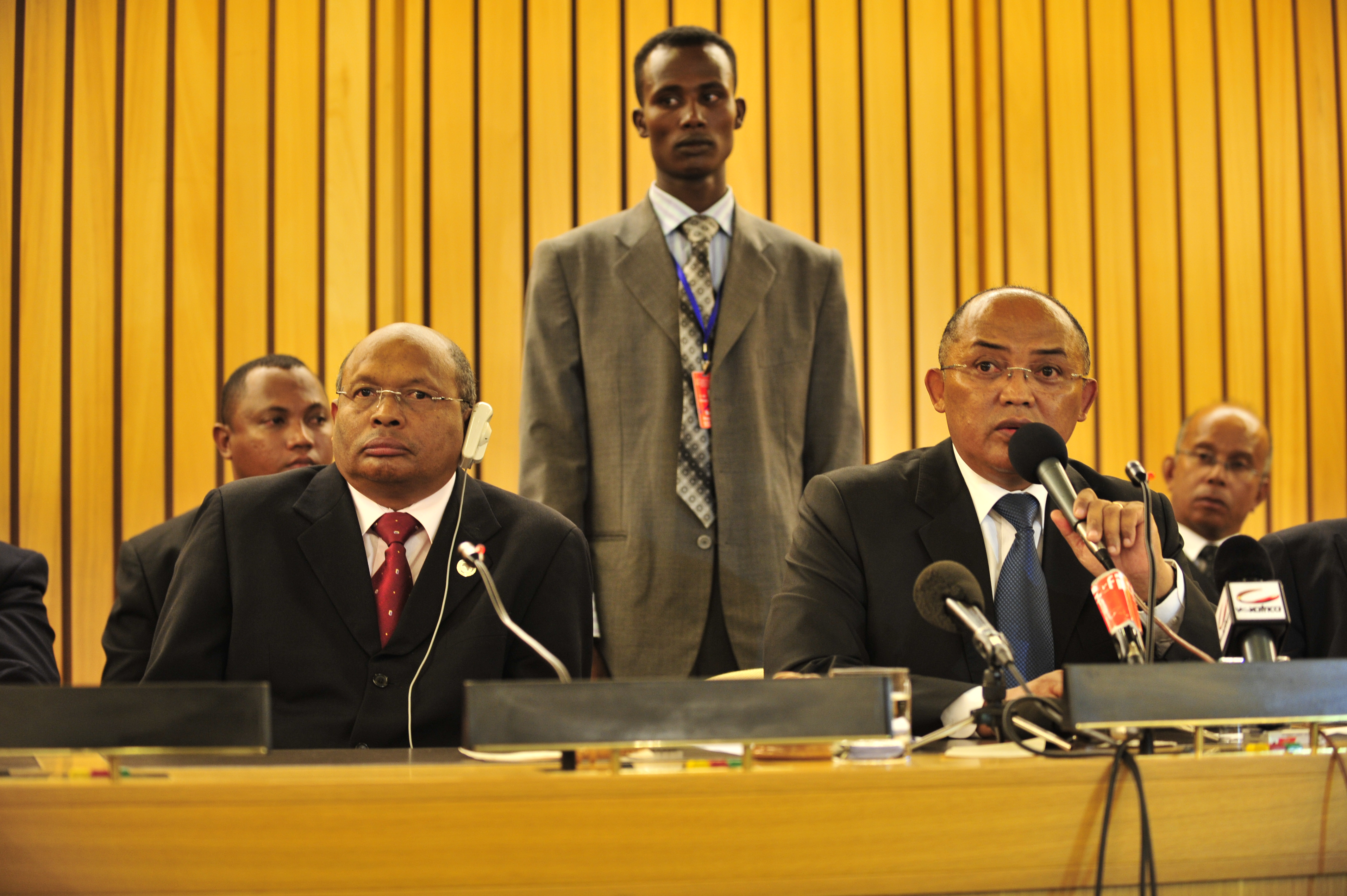 Charles Rabemananjara, Prime Minister of Madagascar, answers questions at a press conference at the United Nations building in Addis Ababa, Ethiopia, during the 12th African Union (AU) Summit, Feb. 3, 2009.